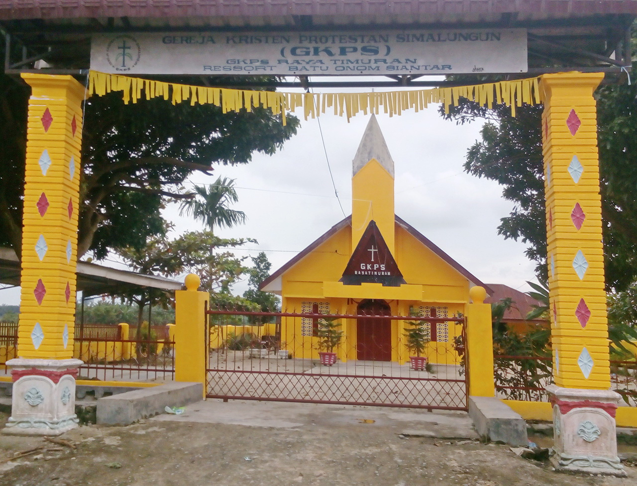 GKPS Raya Timuran, Church in Jawa Maraja Bah Jambi